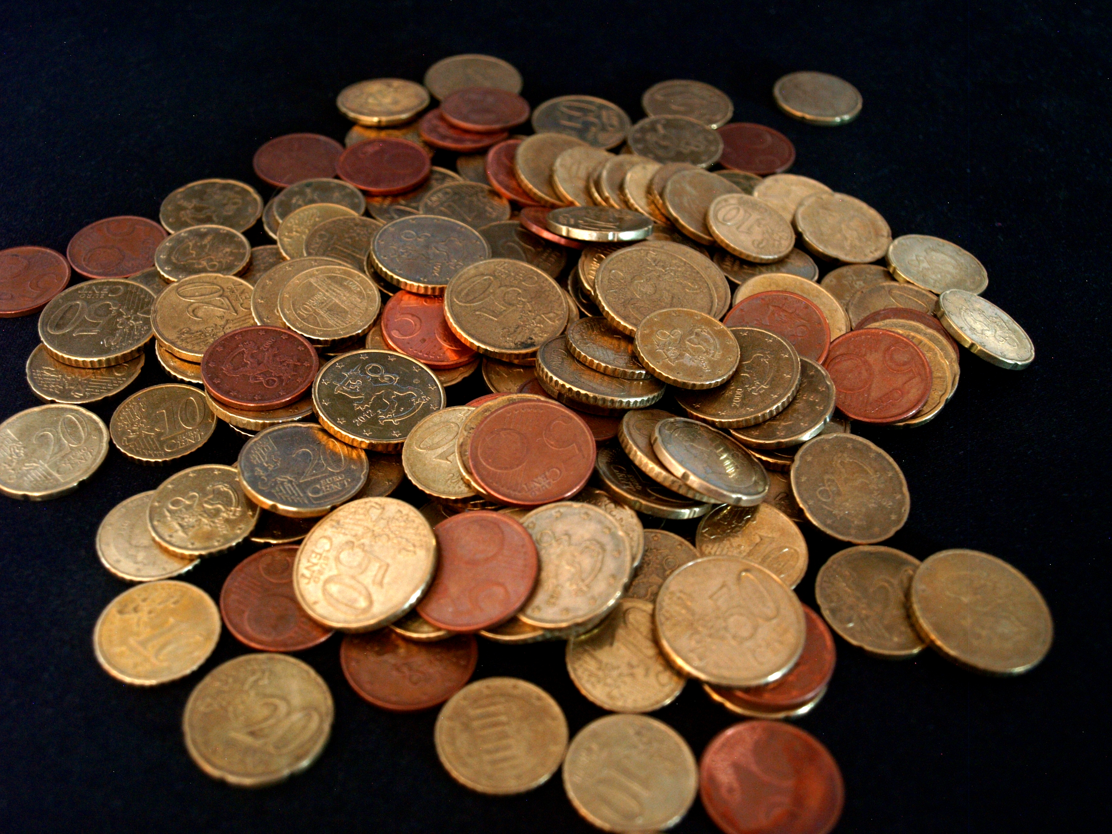 Different euro cent money coins.